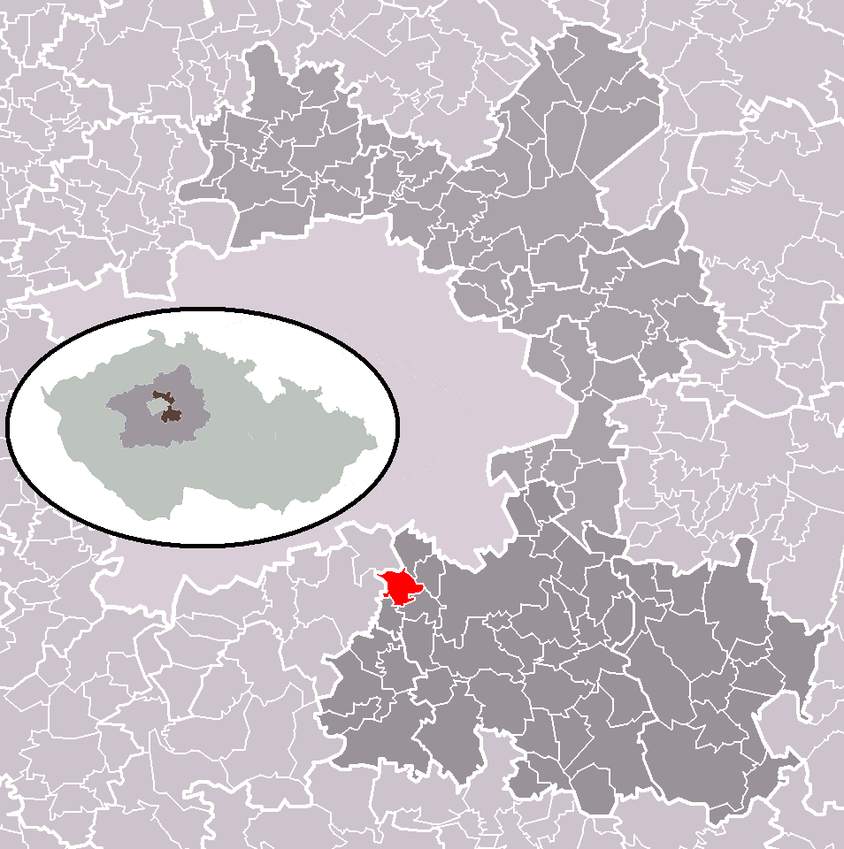 Location of Dobřejovice municipality within Prague-East District and administrative area of Říčany as a Municipality with Extended Competence.